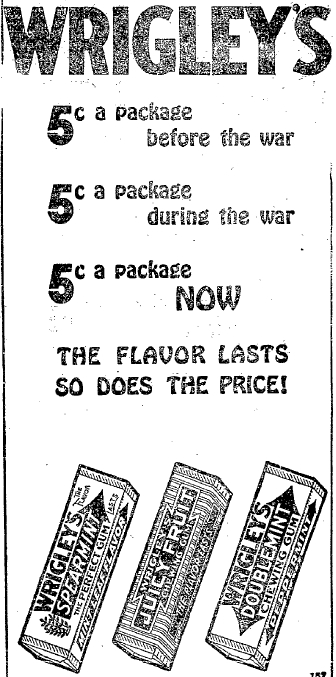 A newspaper advertisement for various types of Wrigley's gum.